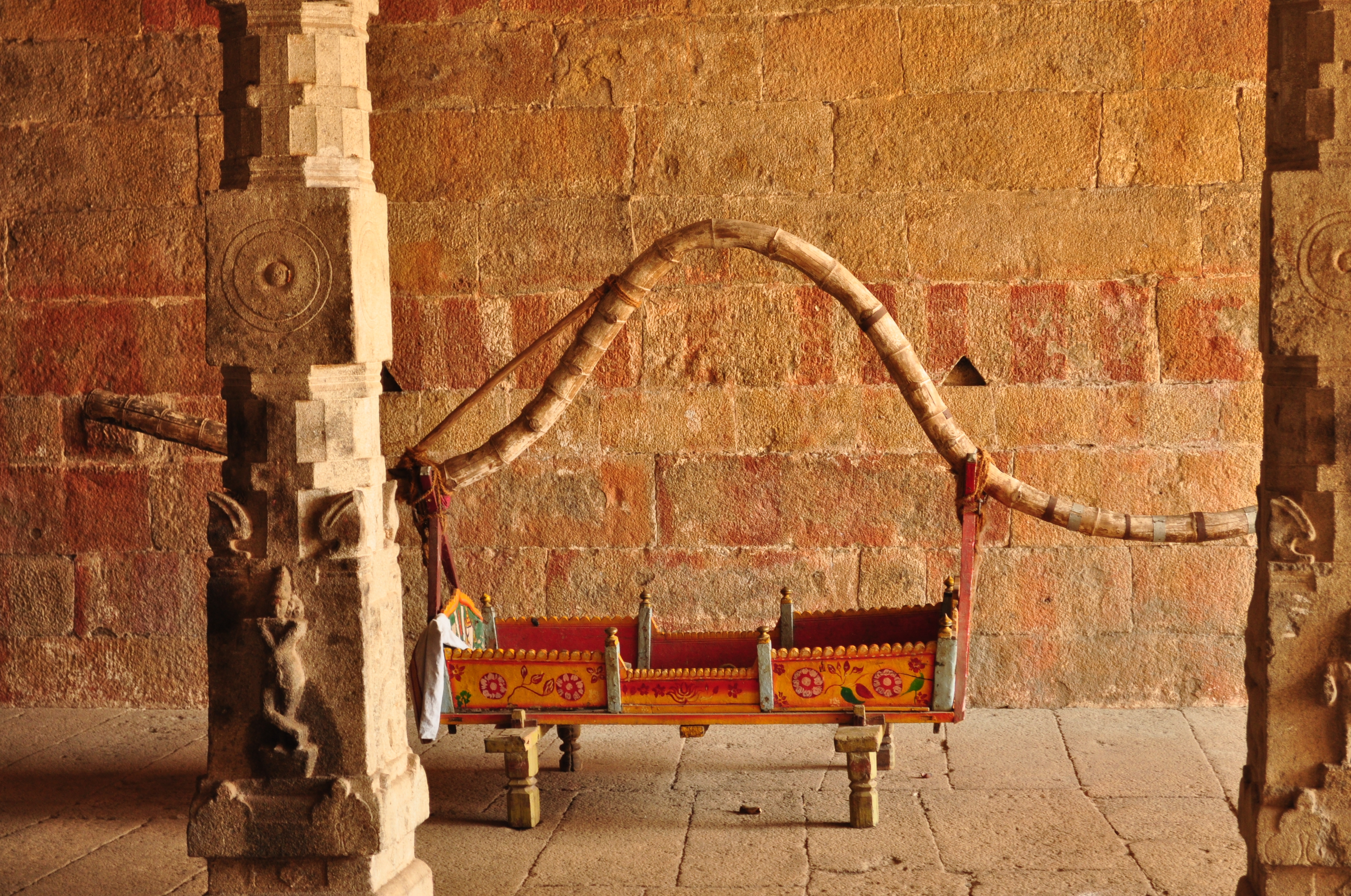 Pallakku – Used to carry people or deities.